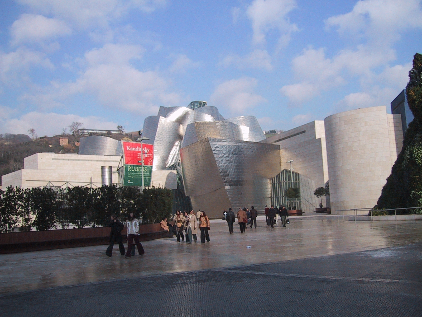 Guggenheim Museum Bilbao Entrance Panorama